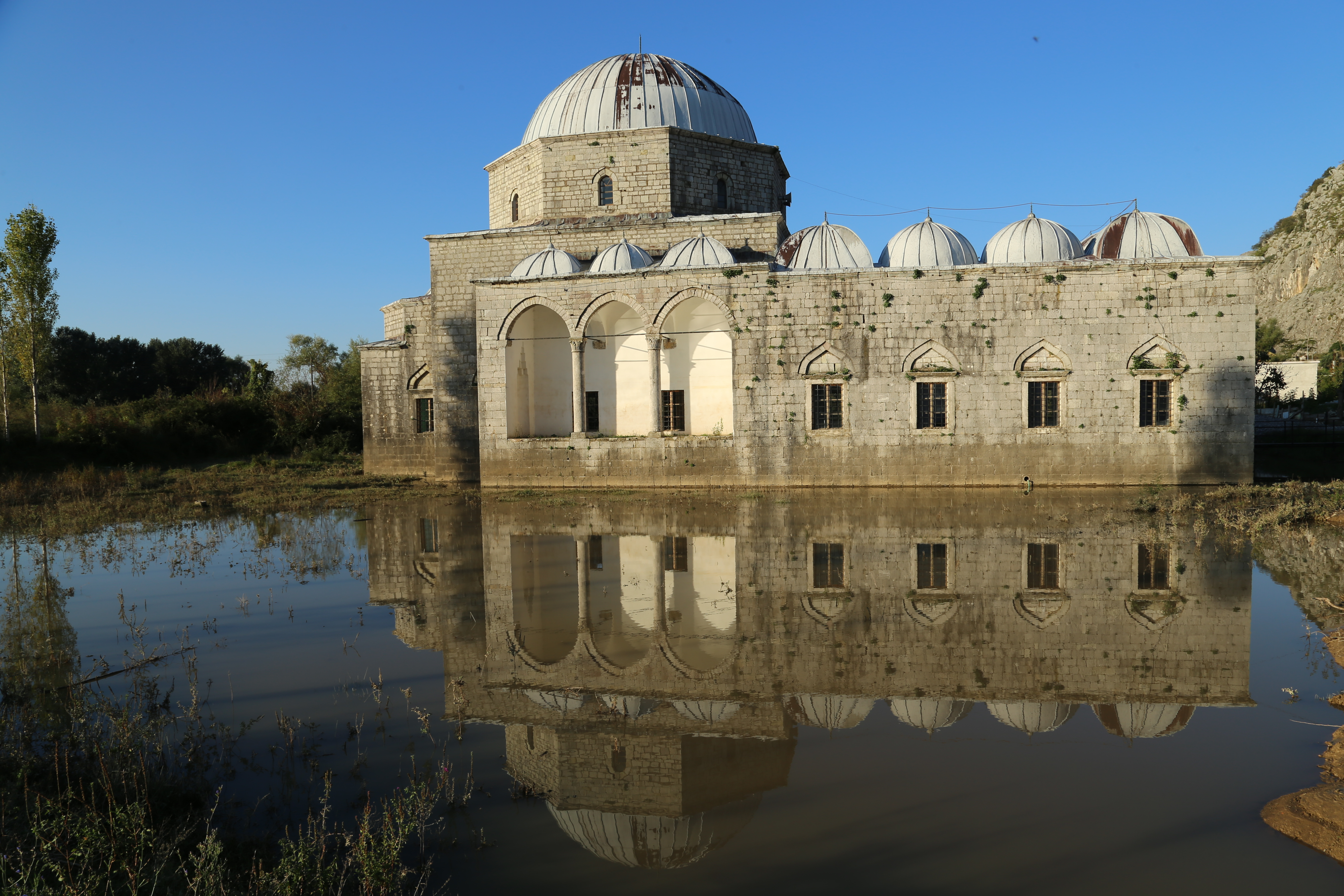 Lead Mosque, Shkodër